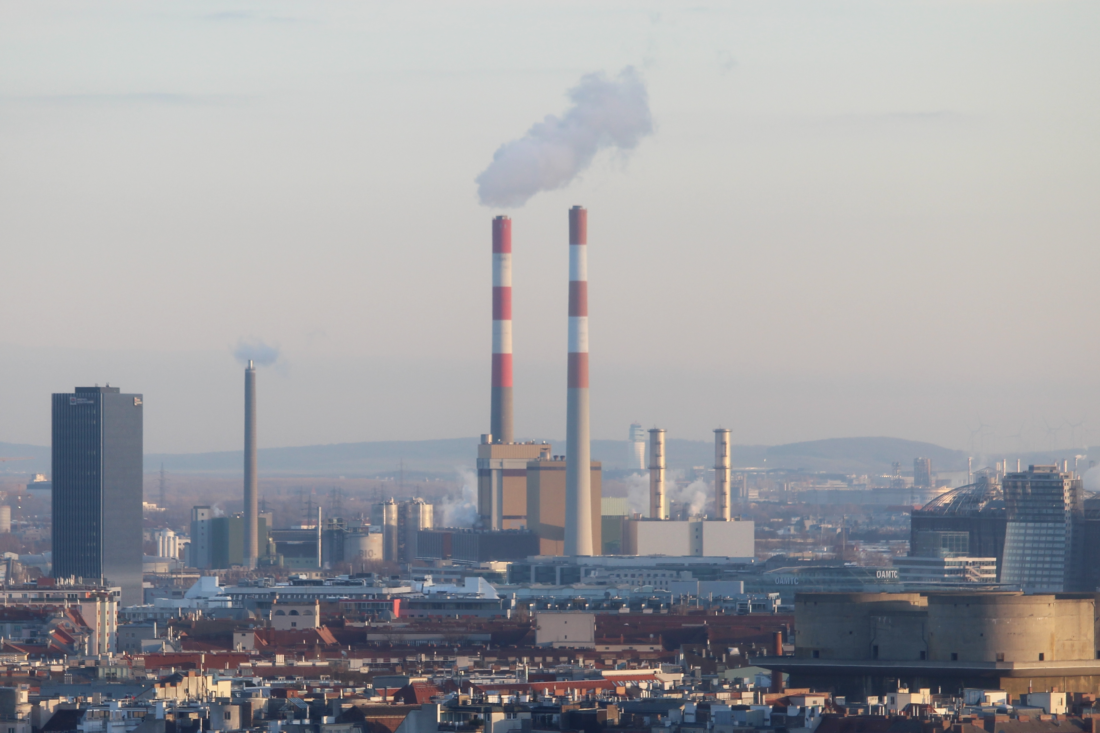 Picture taken from Stephansdom (South Tower ~ 130 meters), Vienna (19 December 2017)